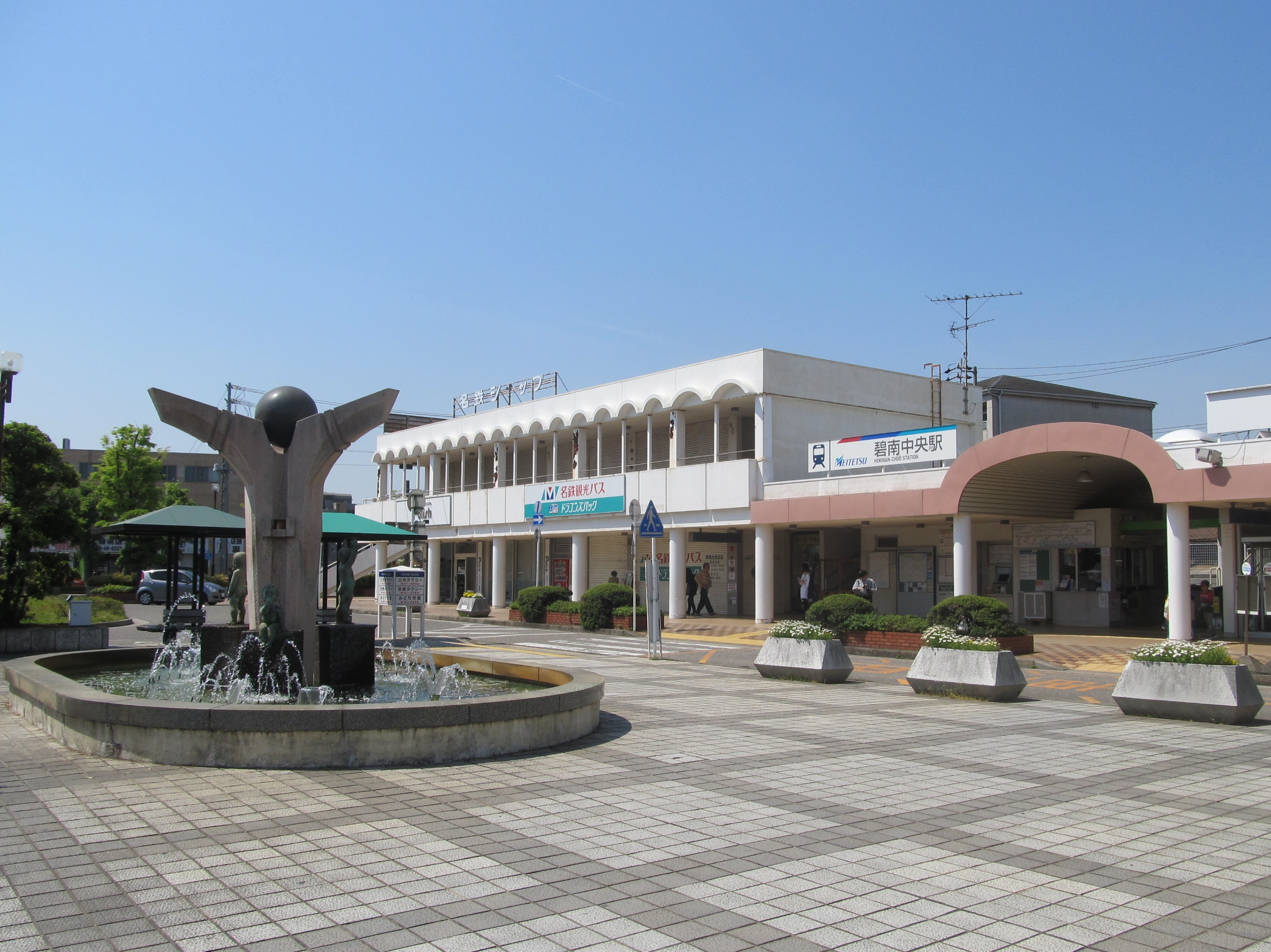 Nagoya Railroad Mikawa Line Hekinan Chūō Station Building